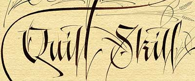 Traditional western calligraphy with a gothic flavour by Denis Brown